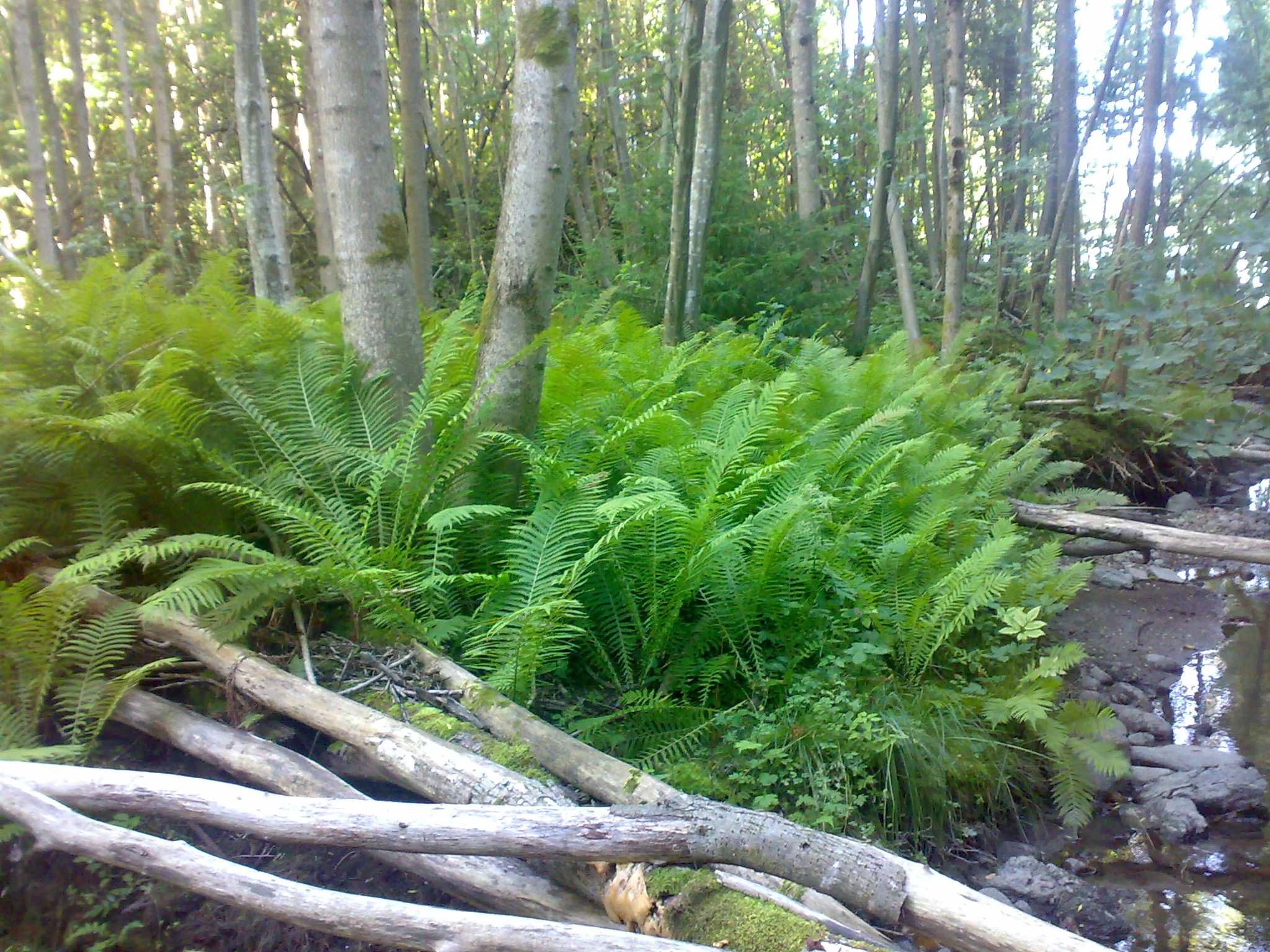 Matteuccia struthiopteris in Hurum, Norway